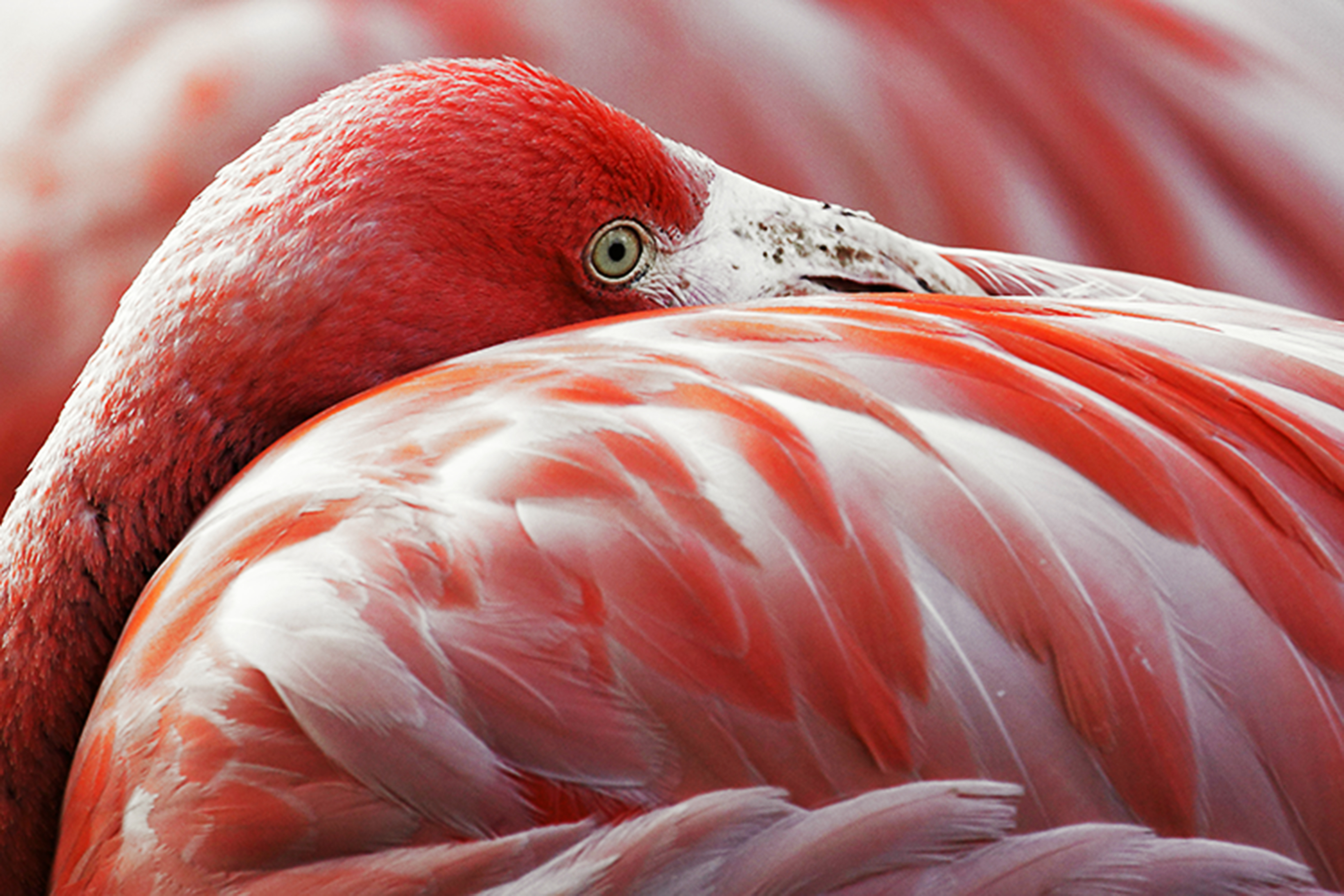 Flamingo - Phoenicopterus ruber - Photography taken at the Lisbon Zoo